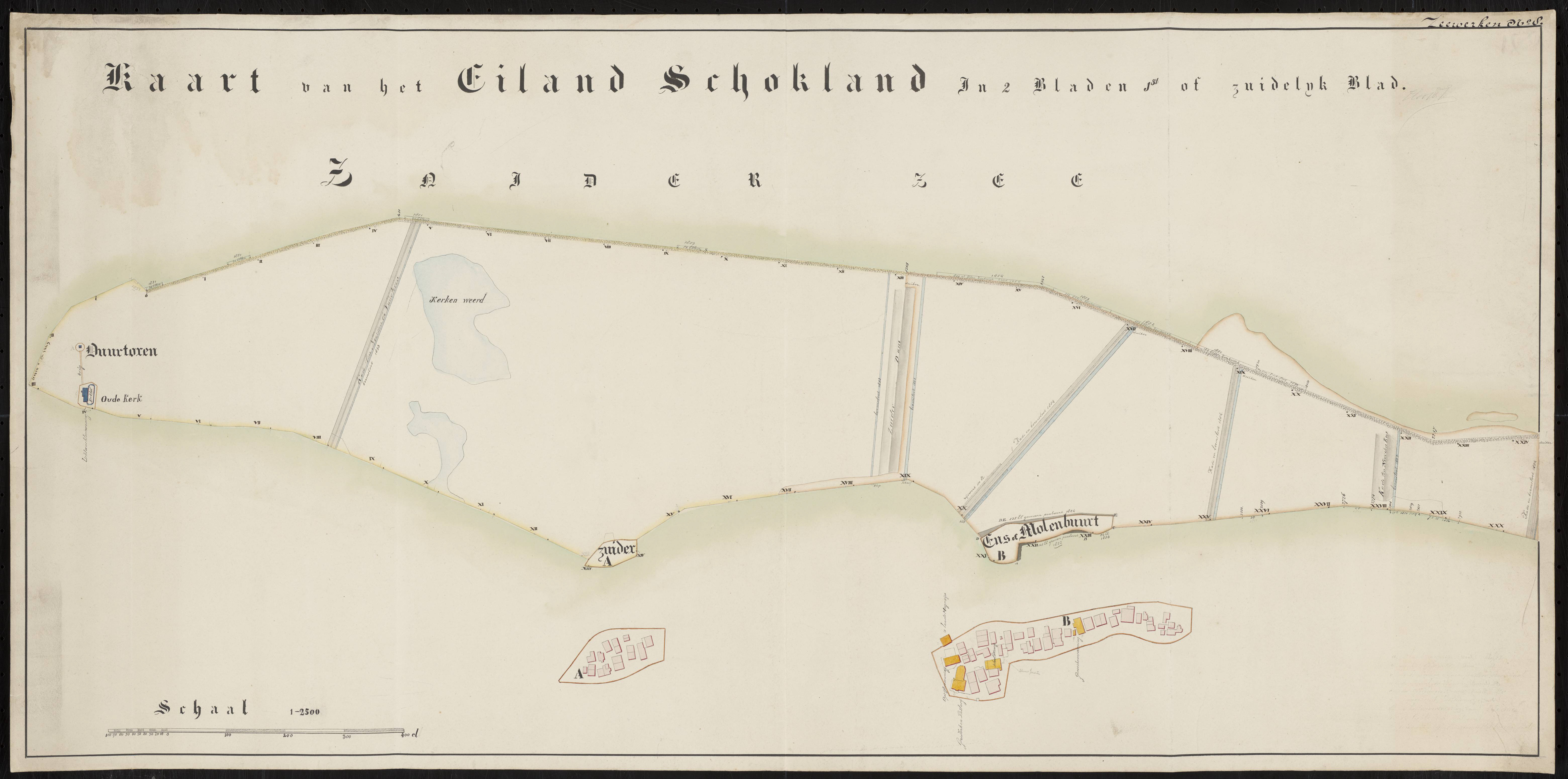 Kaart van het zuidelijk deel van Schokland, met detailkaartjes van Zuiderbuurt en van Ens of Molenbuurt. Vermeld worden: Oude kerk met vuurtoren en lichtwachterswoning, Kerkenweerd, kaden en dammen met bermsloten en andere waterwerken die tussen 1849 en 1853 zijn aangebracht. Ens: Geref. kerk en pastorie, opzichterswoning, 's lands magazijn, schoolmeesters woning. Legenda en schaalstok zijn aanwezig, het noorden is rechts op de kaart. NL-ZlHCO_KD000369 Dit stuk hoort bij RAO inventarisnummer 445A.